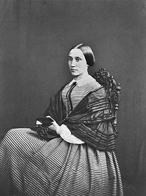 Full-length portrait of the future photographer Emma Kirchner, seated. Aged around 25. Photograph: 13,9 x 18,5 cm. Owner of Original: Dresden, Staatliche Kunstsammlungen Dresden (SKD), Kupferstich-Kabinett, Signatur/Inventar-Nr.: D 1919-148